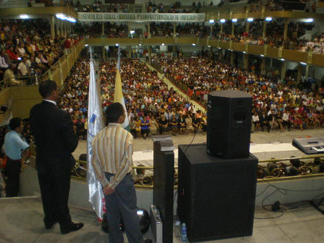 Imperatriz